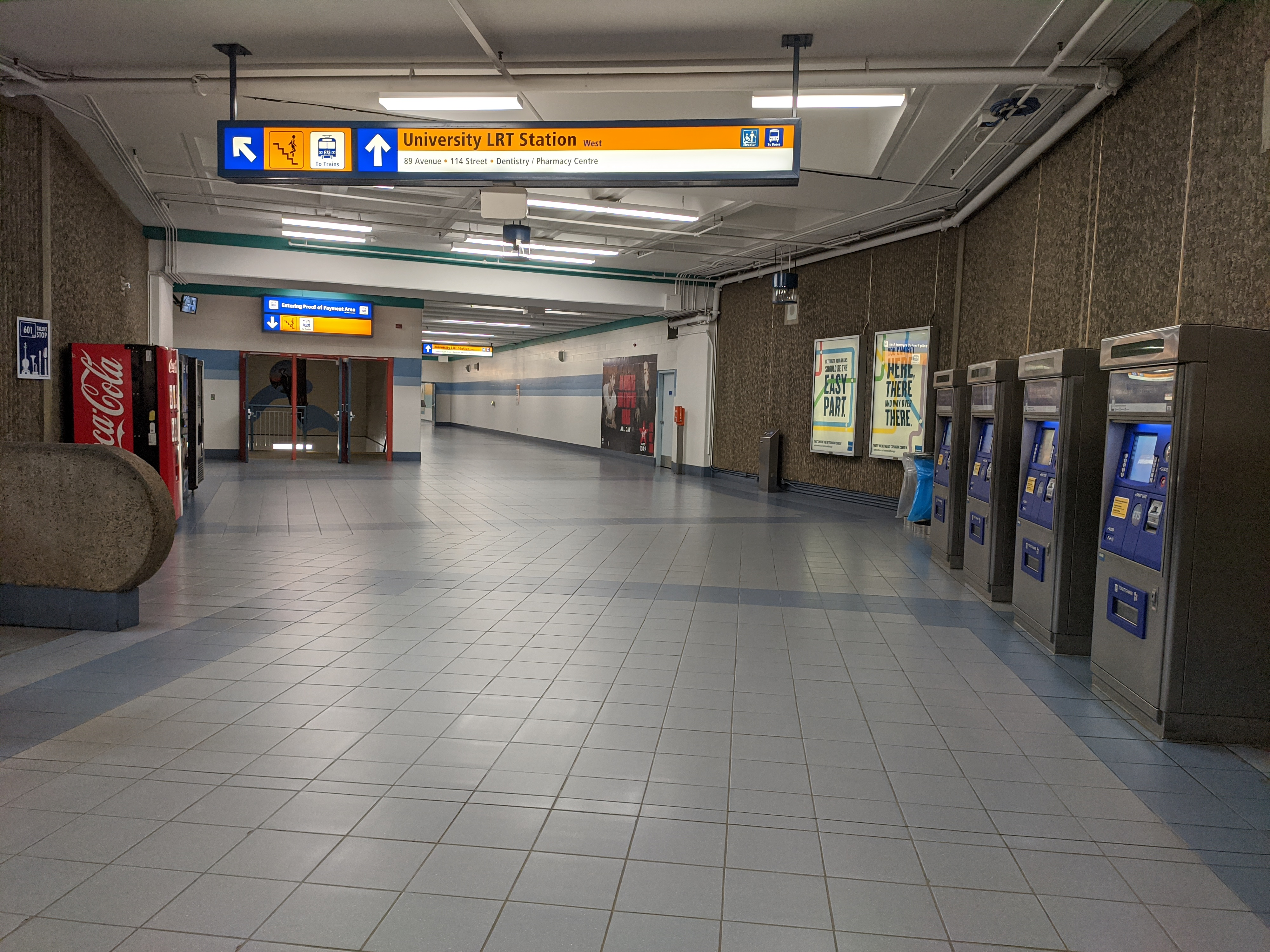 Concourse level of the University Station on the Edmonton LRT, July 19, 2020. The posters on the right are advertising the future LRT expansions. With no one where because of COVID, this place feels kind of ominous!